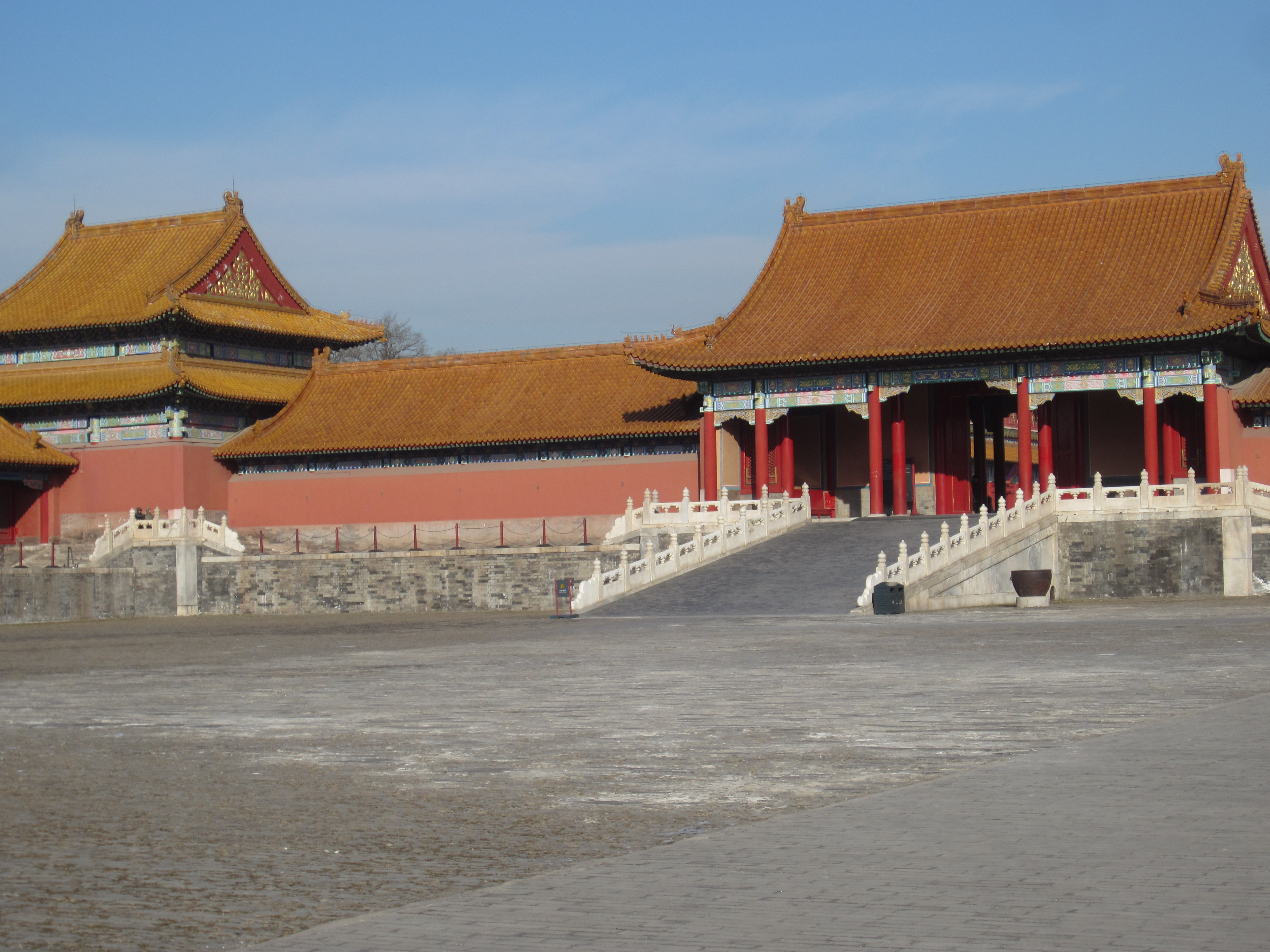 Beijing (November 2016)